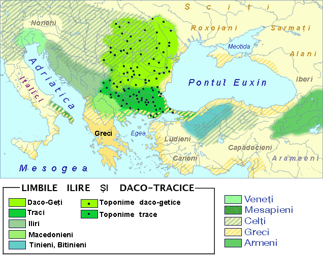 Distribution of Paleo-Balkan languages in Eastern Europe and Asia Minor according to Ivan Duridanov (including modern updates). The map covers the people present in the area between 5th and 1st century BC. It does NOT represent a specific time in that period - it is not a map of a real synchronic situation